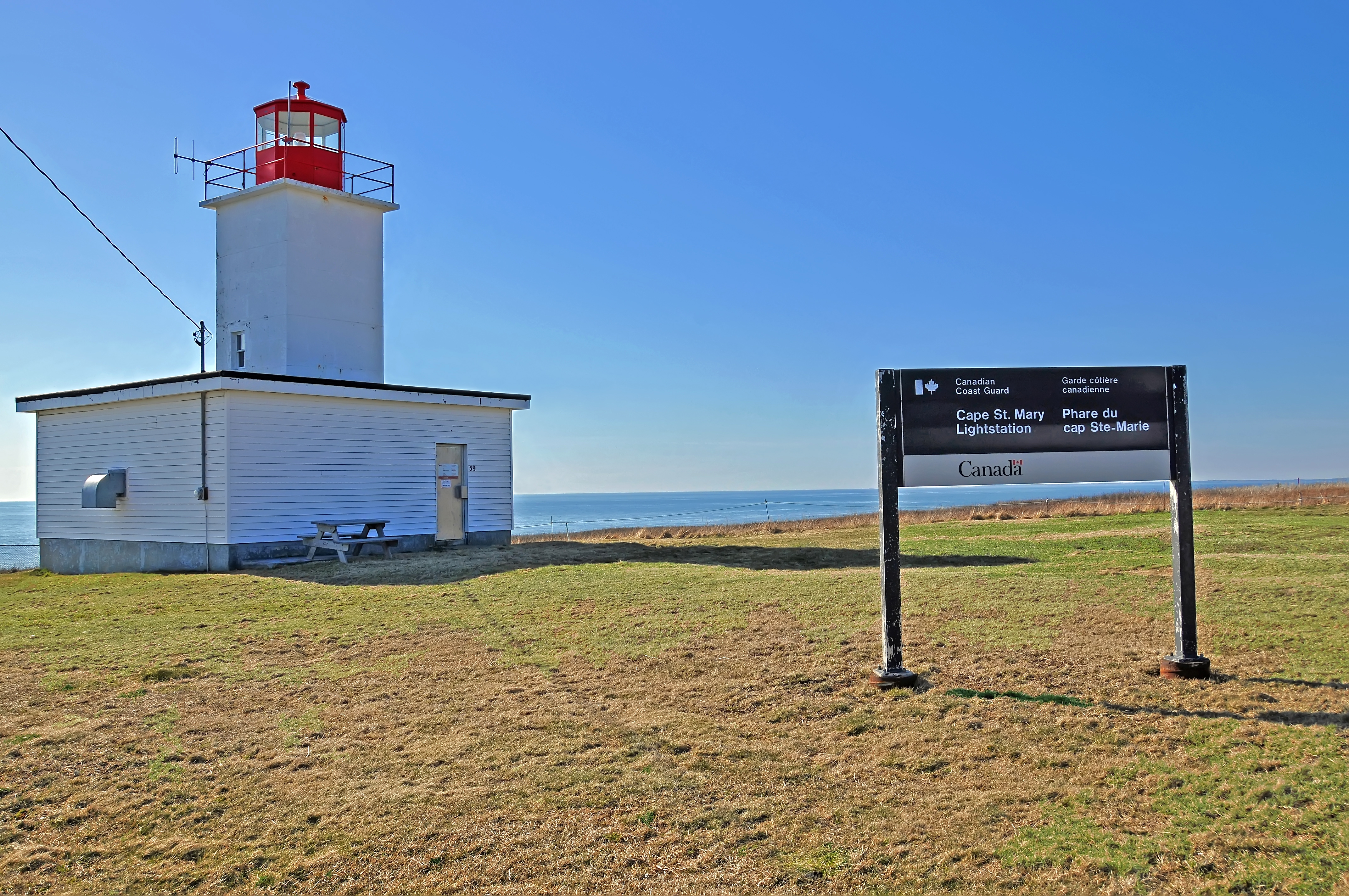 Cape St. Mary lightstation. Cape St. May, Nova Scotia, Canada